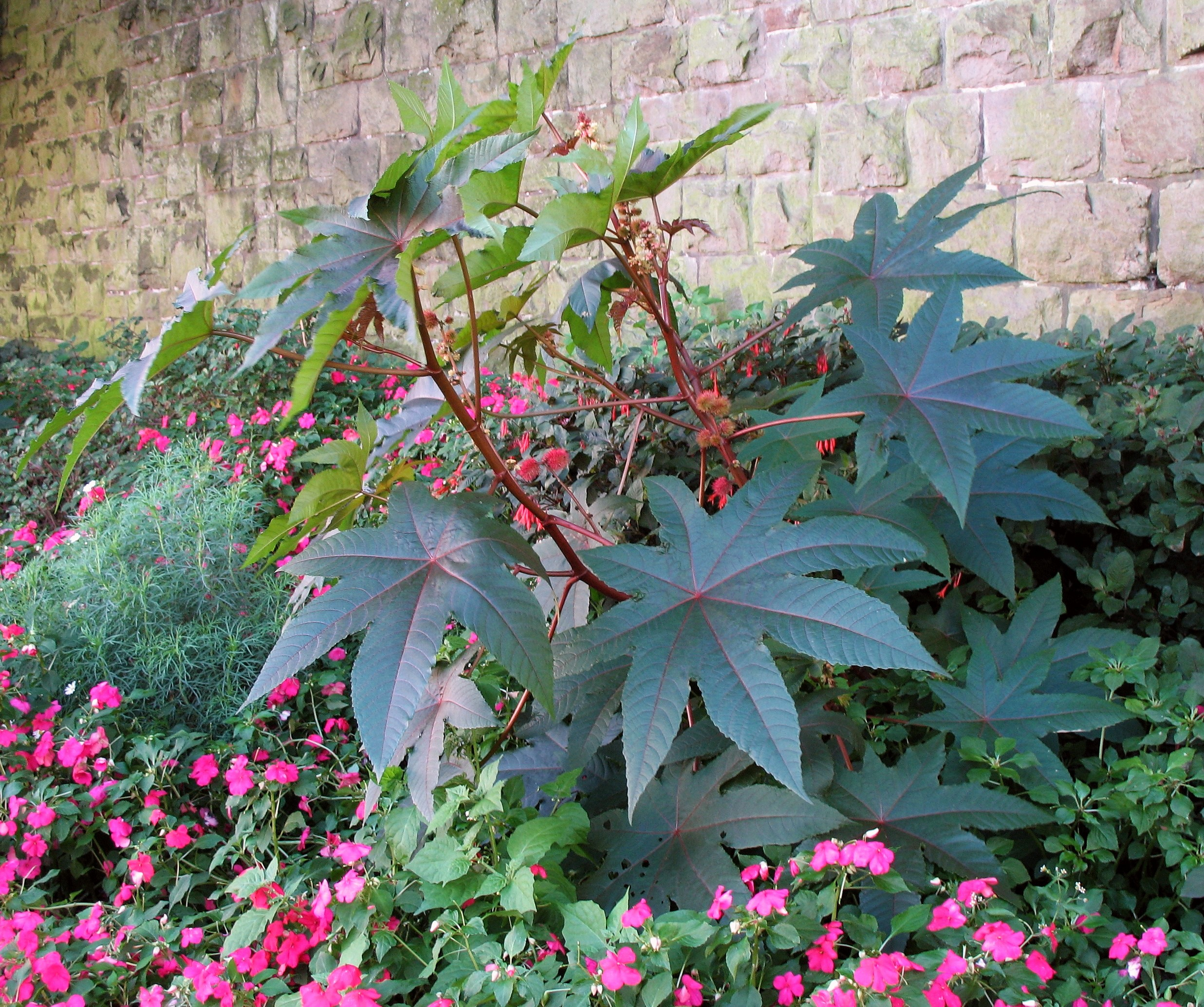 Ricinus communis shrub in Aachen